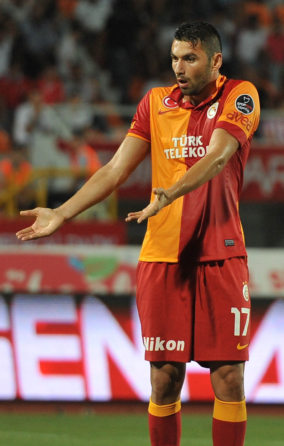 Burak with Galatasaray Photo:Murat Özgen